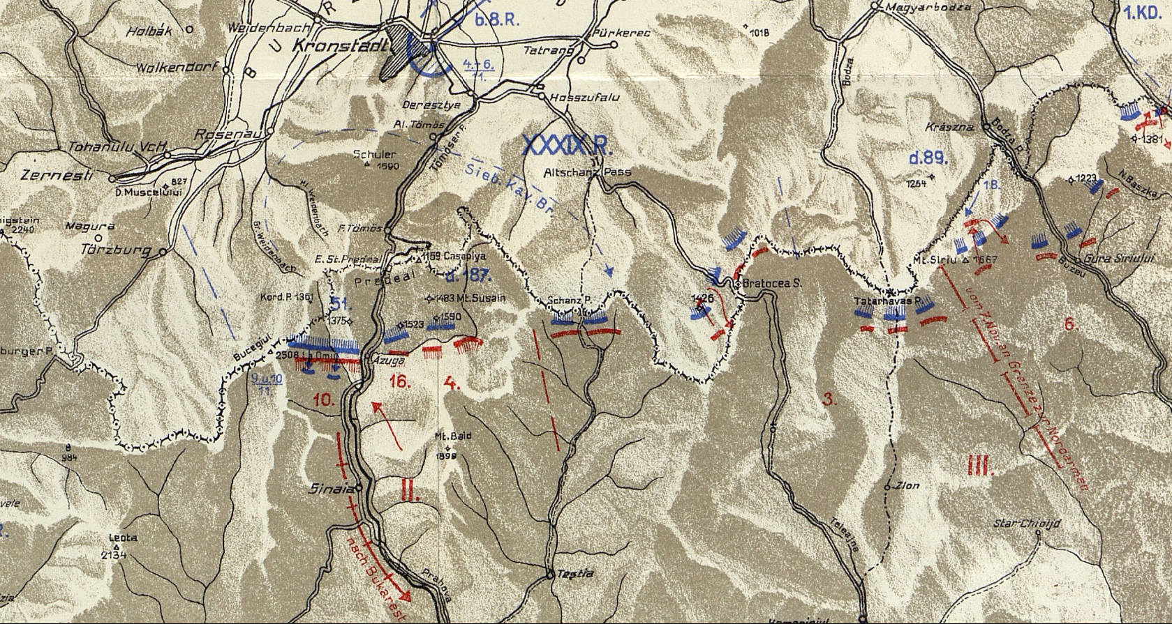 Romanian Front in WWI - The second phase of the battle from Valea Prahovei, november 1916